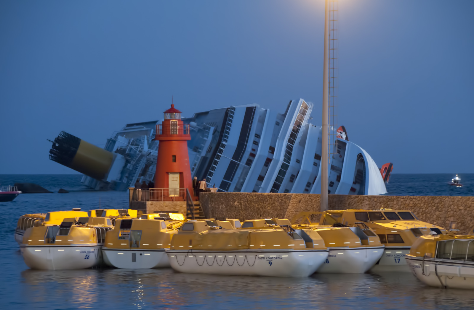 Collision of Costa Concordia - The lifeboats were moored inside the harbor pier before dawn. The grounded ship sank in background.